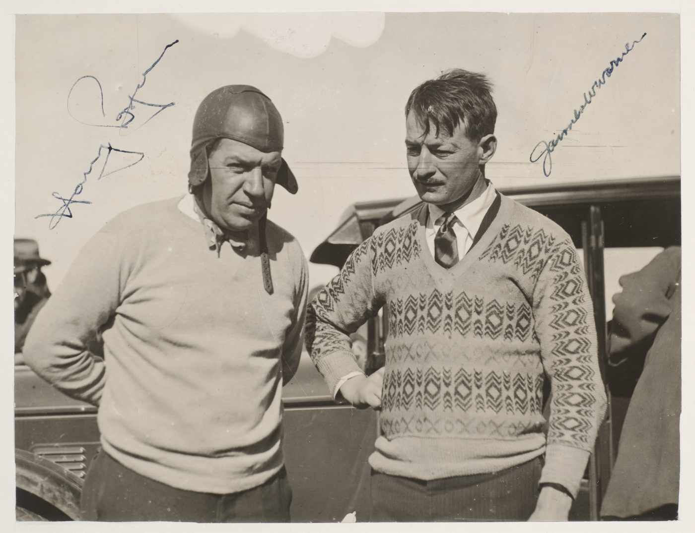 Harry Lyon [navigator] and James Warner [radio operator], Southern Cross, trans-Pacific flight, ca. 1928, State Library of New South Wales P1/1041